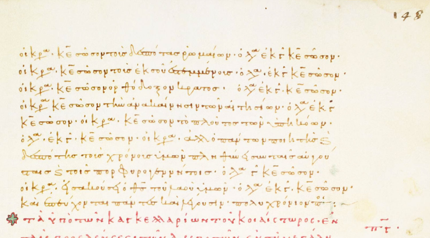 Book of Ceremonies by Constantine VII Porphyrogennetos (book I, ch. 82): Leipzig, Universitätsbibliothek, Ms. Rep. I 17, f. 148r